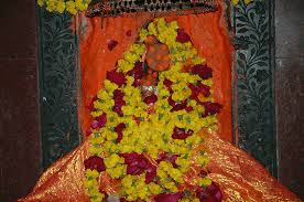 NAIMISHARANYA